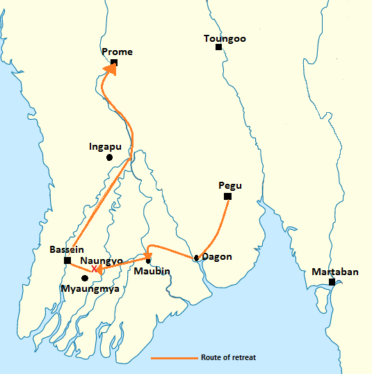 Path of retreat by Hanthawaddy forces and location of Naungyo